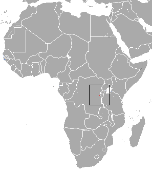 Schaller's Mouse Shrew (Myosorex schalleri) range